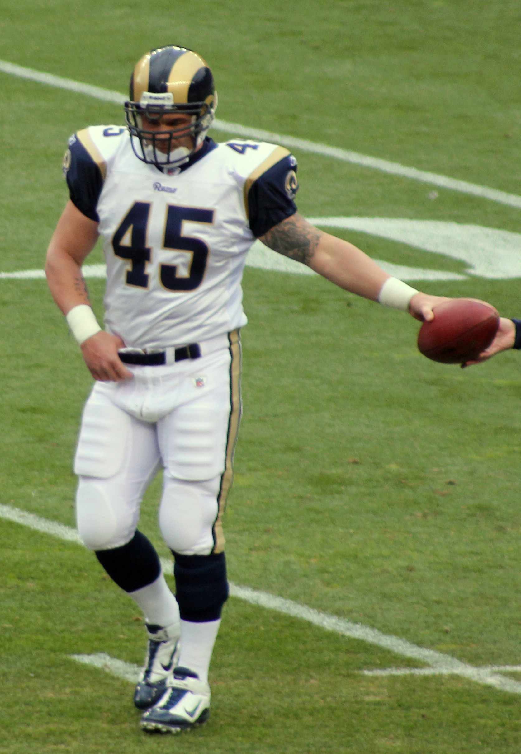 Chris Massey, a player on the Saint Louis Rams American football team.